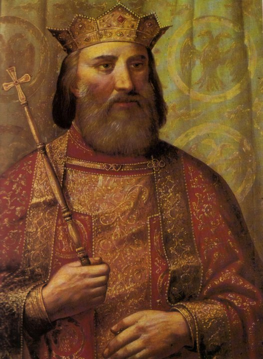 "Knez Lazar", oil painting by Vladislav Titelbah, dated to ca. 1900. (The image of the painting is cropped.)